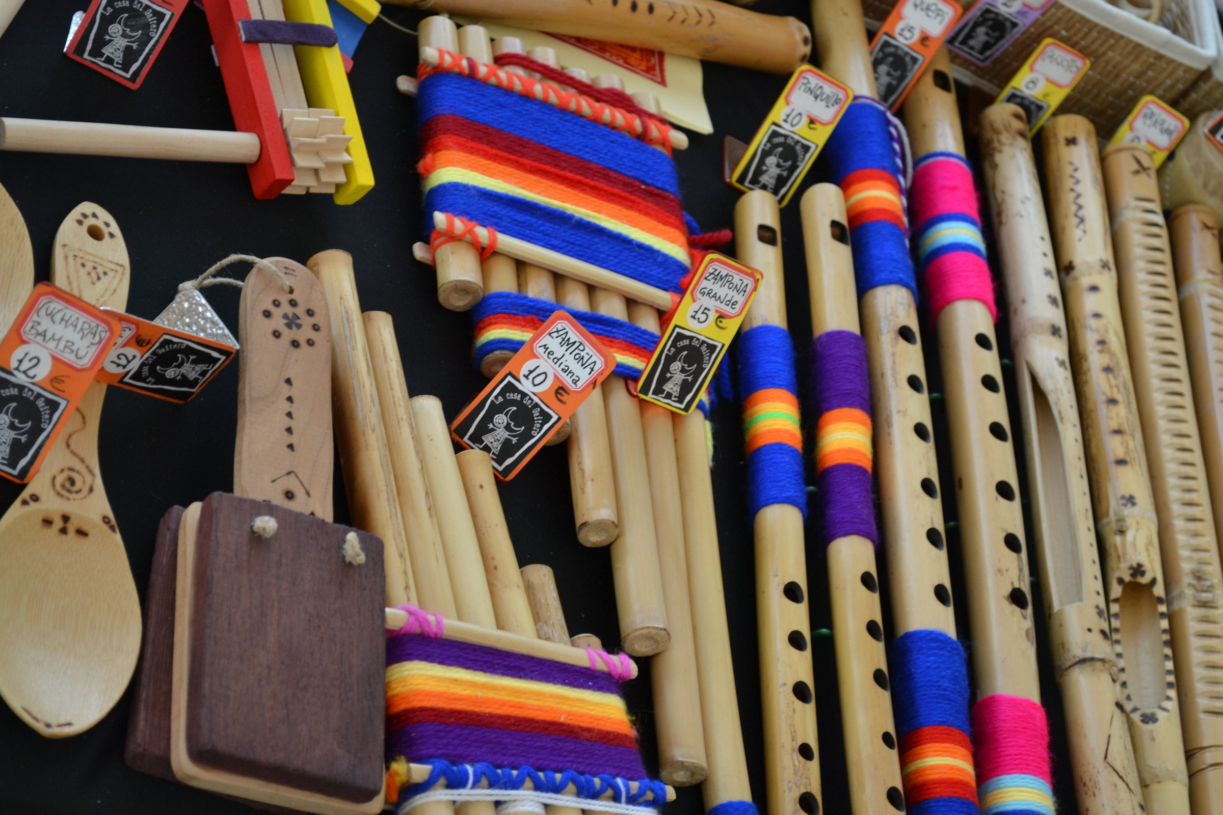 Instrument makers exhibition during Trad'envie 2017. Zampoñas, castanets, pinquillos, quepis.